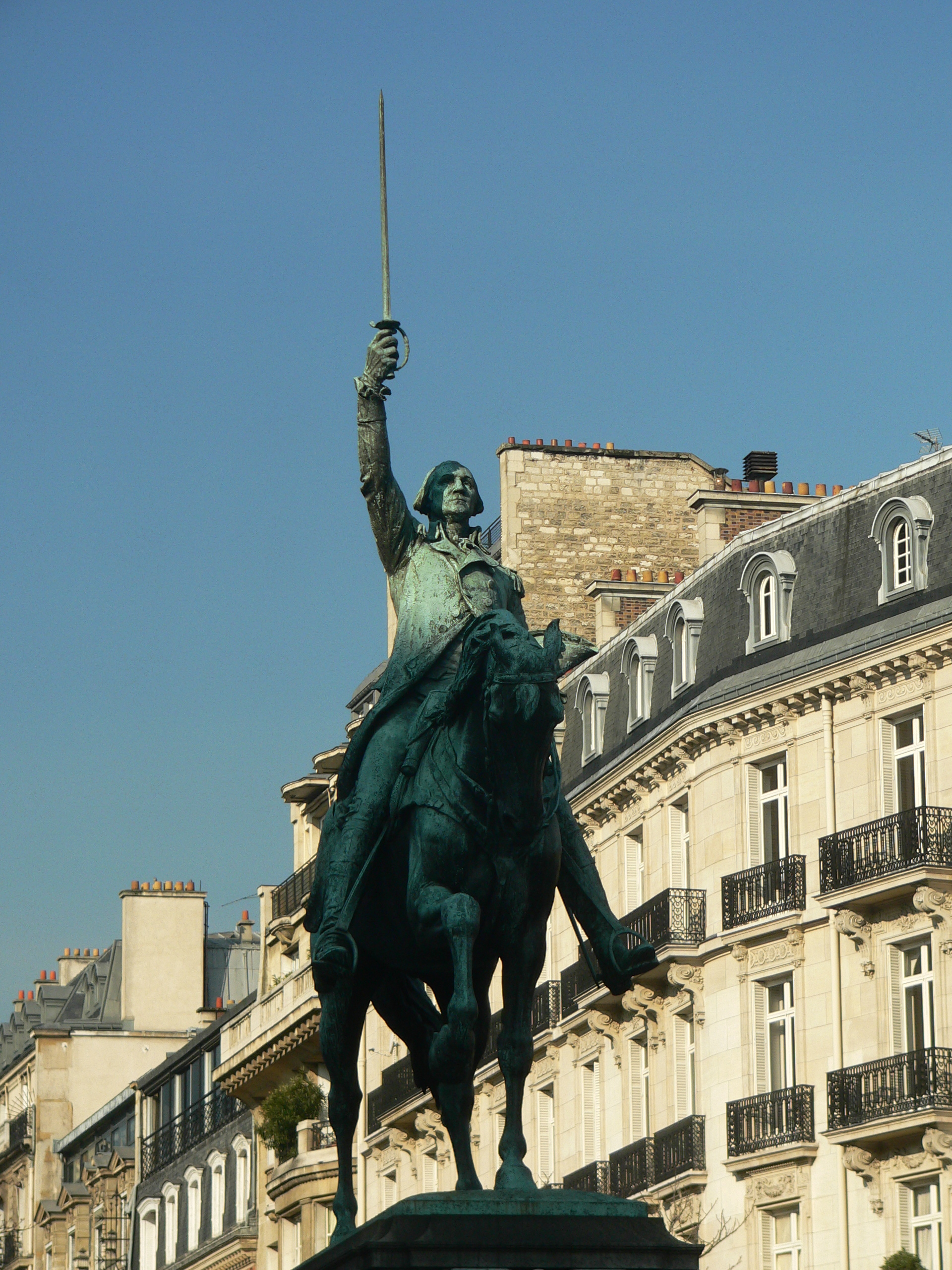 The statue of George Washington in the Place d'Iéna, Paris, France